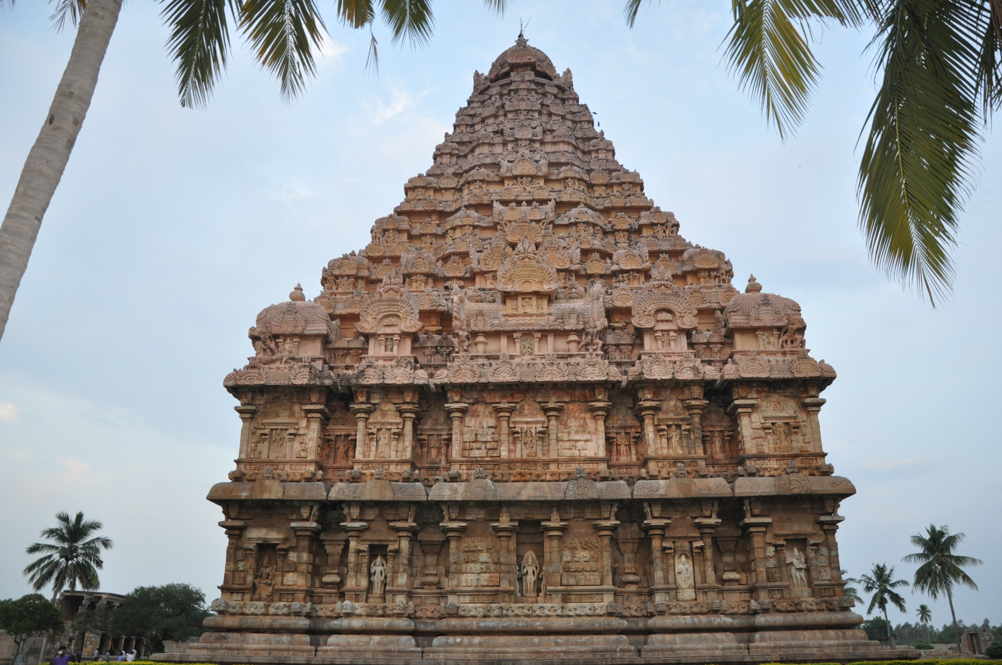 "A backside view of Brihadisvara Temple of Gangaikonda Cholapuram " .Location: Gangaikonda Cholapuram, Near Jeyankondam, Ariyalur District, Tamil Nadu, India.